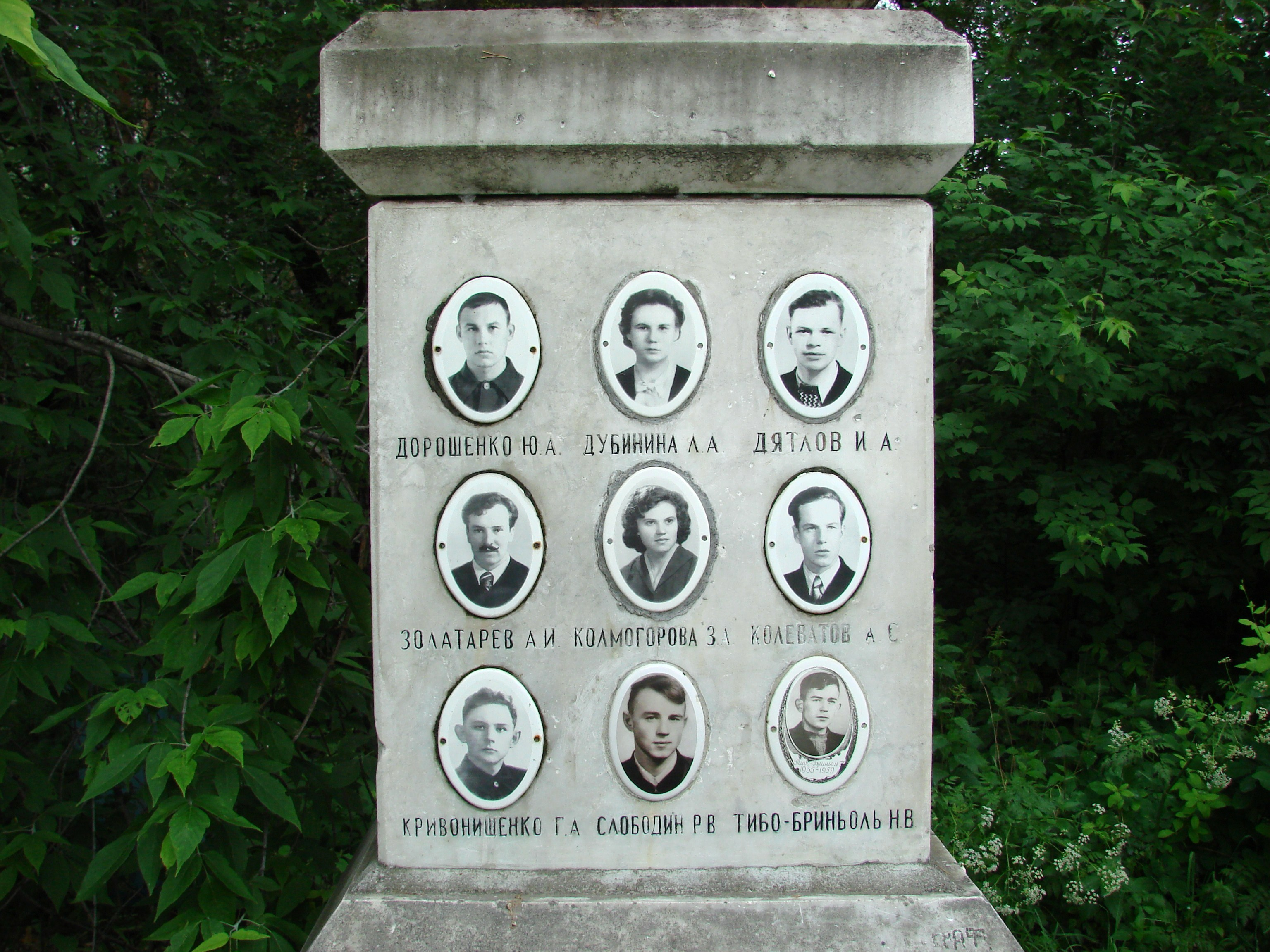 The Mikhajlov Cemetry in Yekaterinburg. The tomb of the group who had died in mysterious circumstances in the northern Ural Mountains.